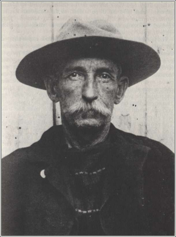 Bill Miner (1847-1913), Canada's first train robber.